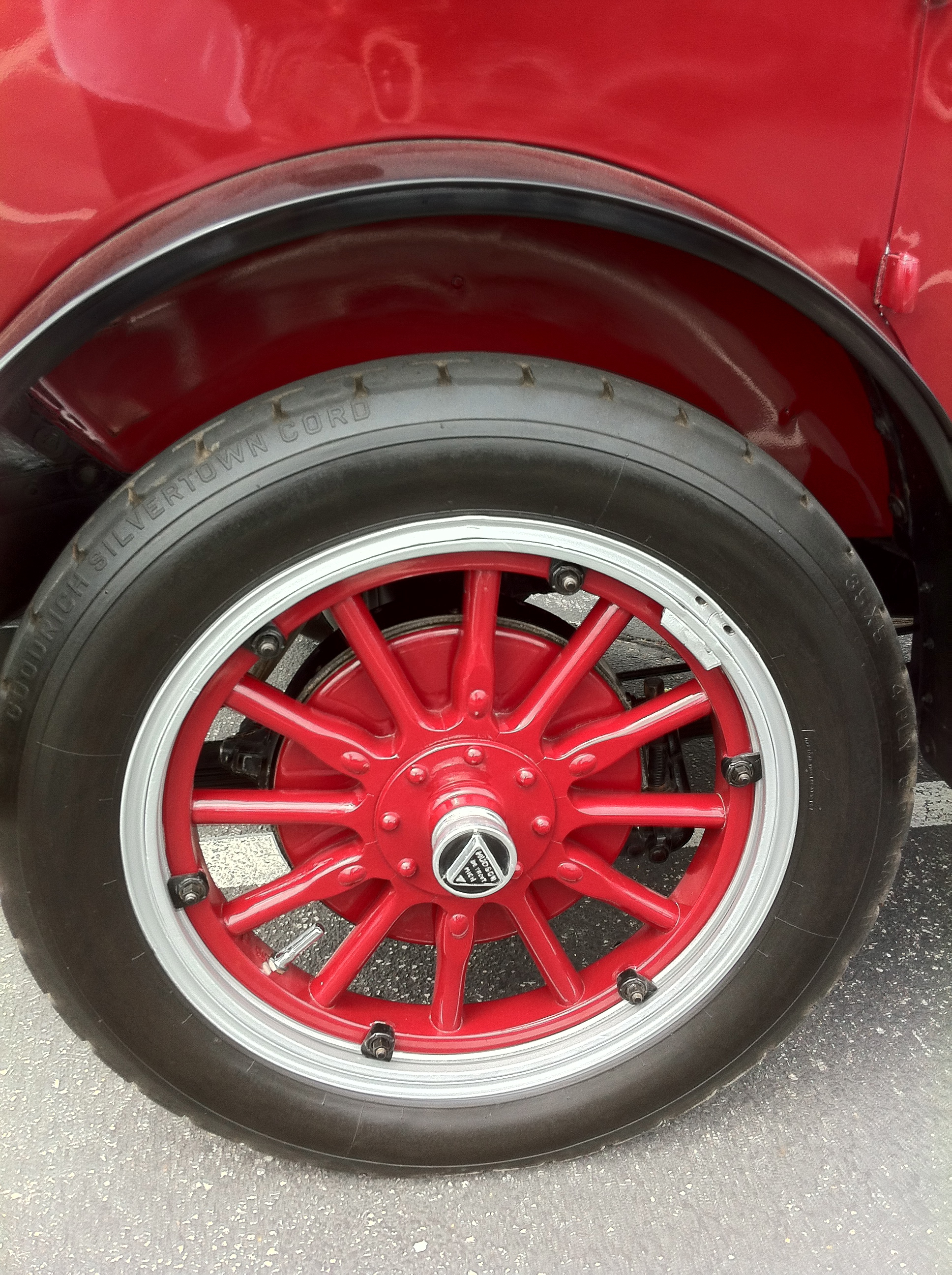 1921 Hudson Super Six Phaeton finished in red and black - detail of wheel with 35 x 5 (4-ply) Goodrich Silvertown Cord tires. Picture taken at the 2012 AACA "Central Meet" held in Cedar Rapids, Iowa, USA.